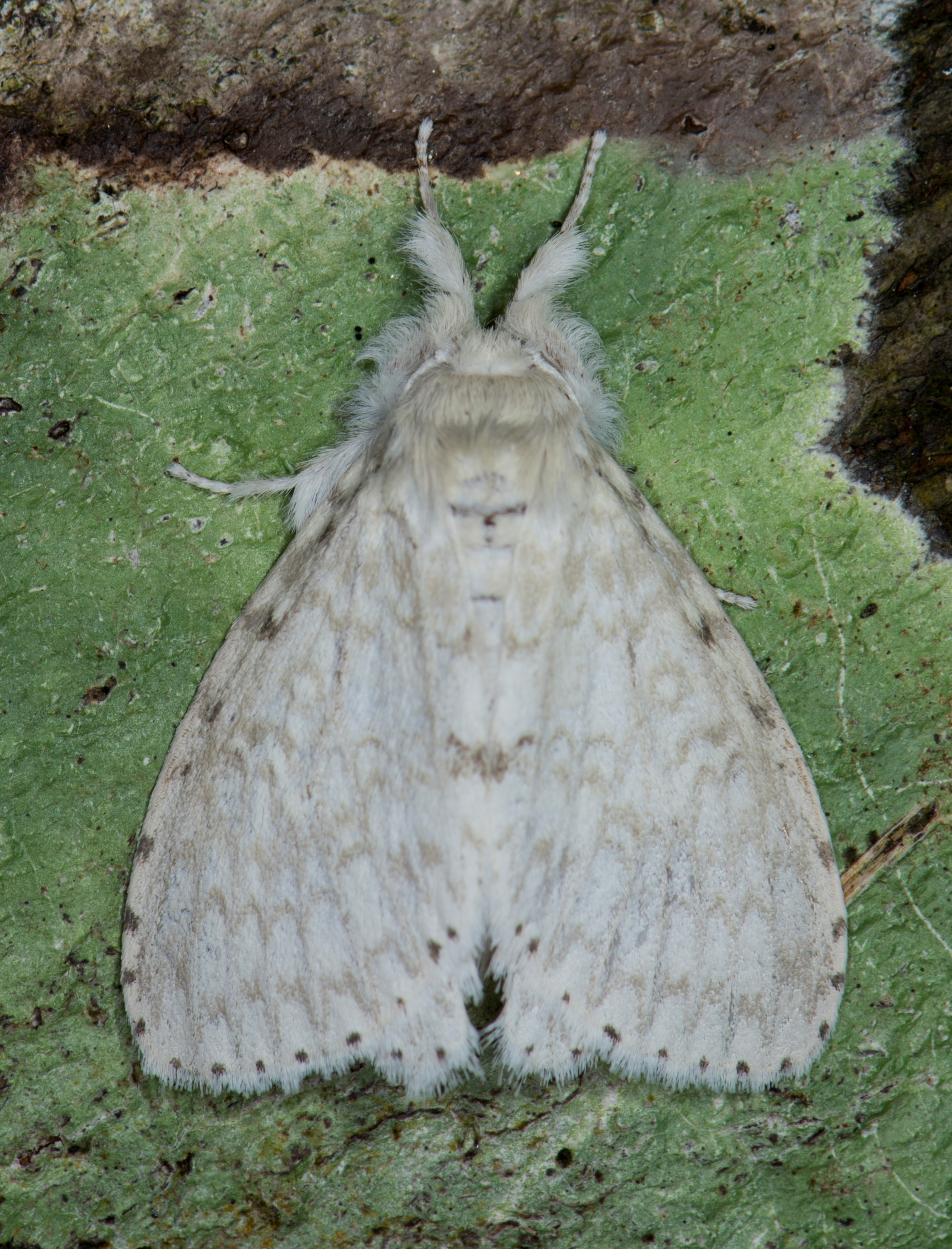 Dura alba at Zhaoyang National Trail (朝陽國家步道) in Su'ao Township (蘇澳鎮), Yilan County (宜蘭縣), Taiwan